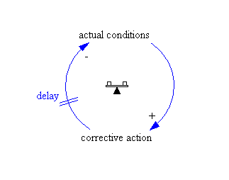 Causal loop diagram - system archetype "Balancing process with delay"